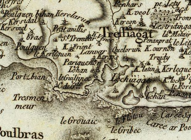 Detail of the Cassini's map, n°172, Guilvinec and Treffiagat.